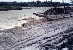 Picture